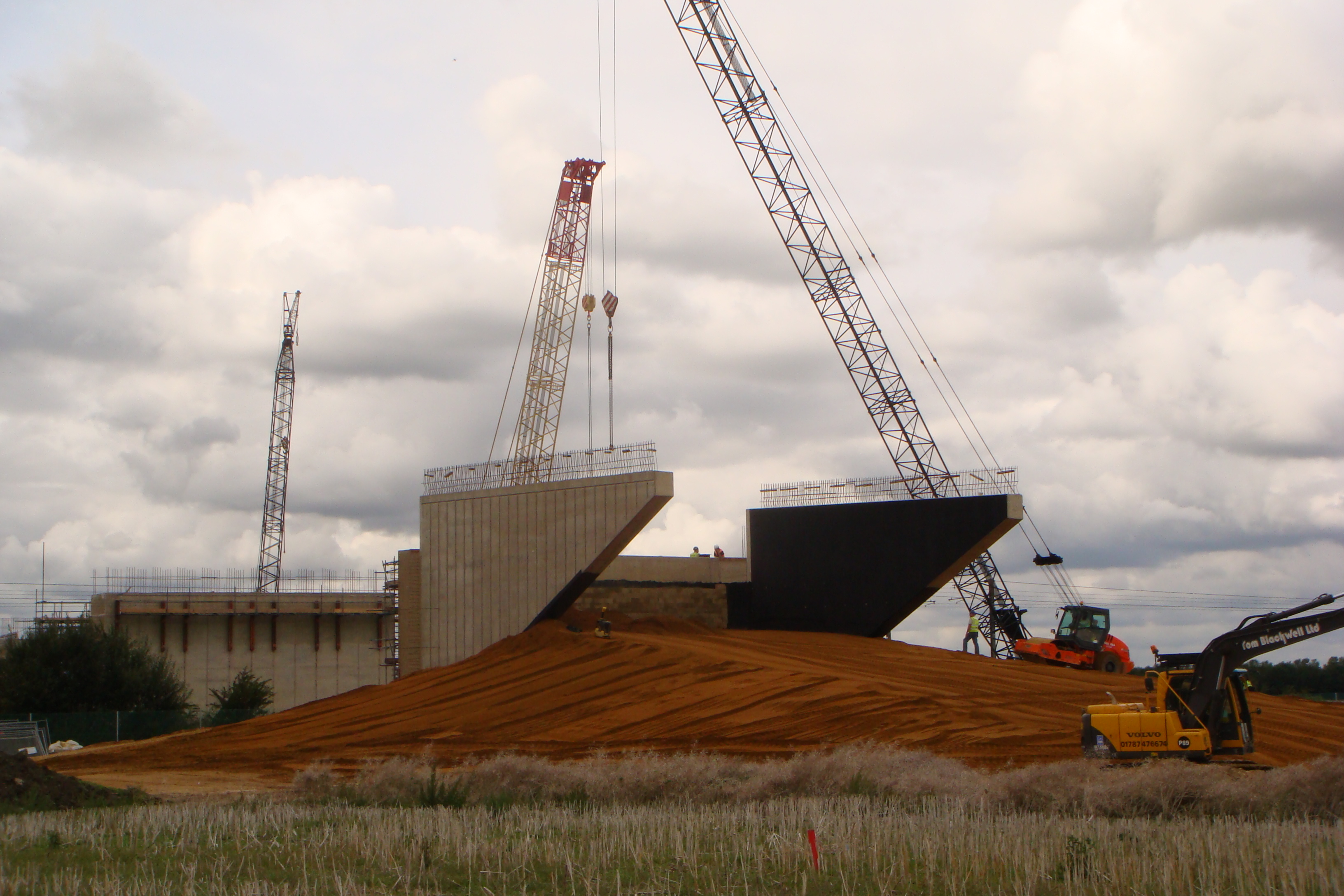 Construction of the southern bridge over the rail line for the Cambridge Guided Busway near Addenbrooke's Hospital